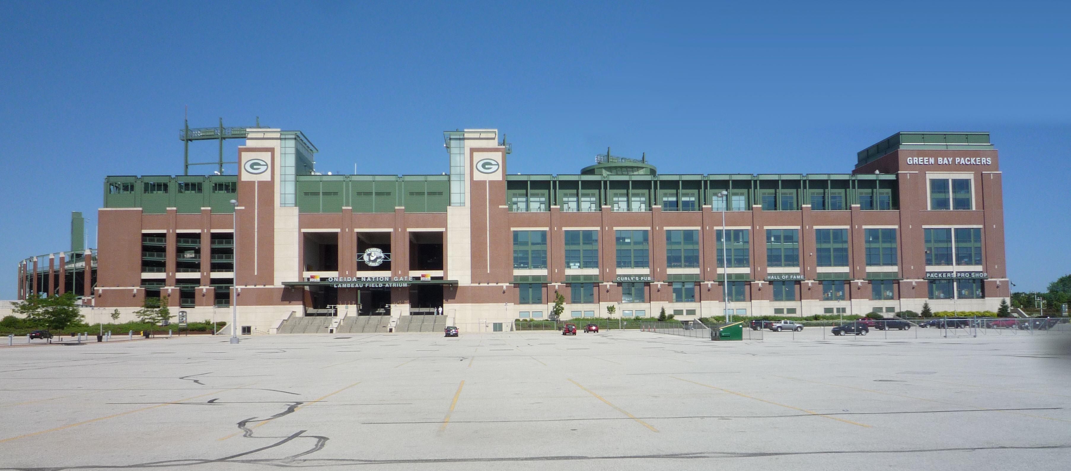 Lambeau Field, Green Bay, Wisconsin, USA.